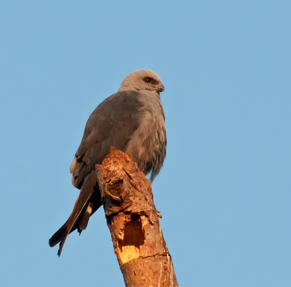 A Plumbeous Kite in Piraju, São Paulo, Brazil.